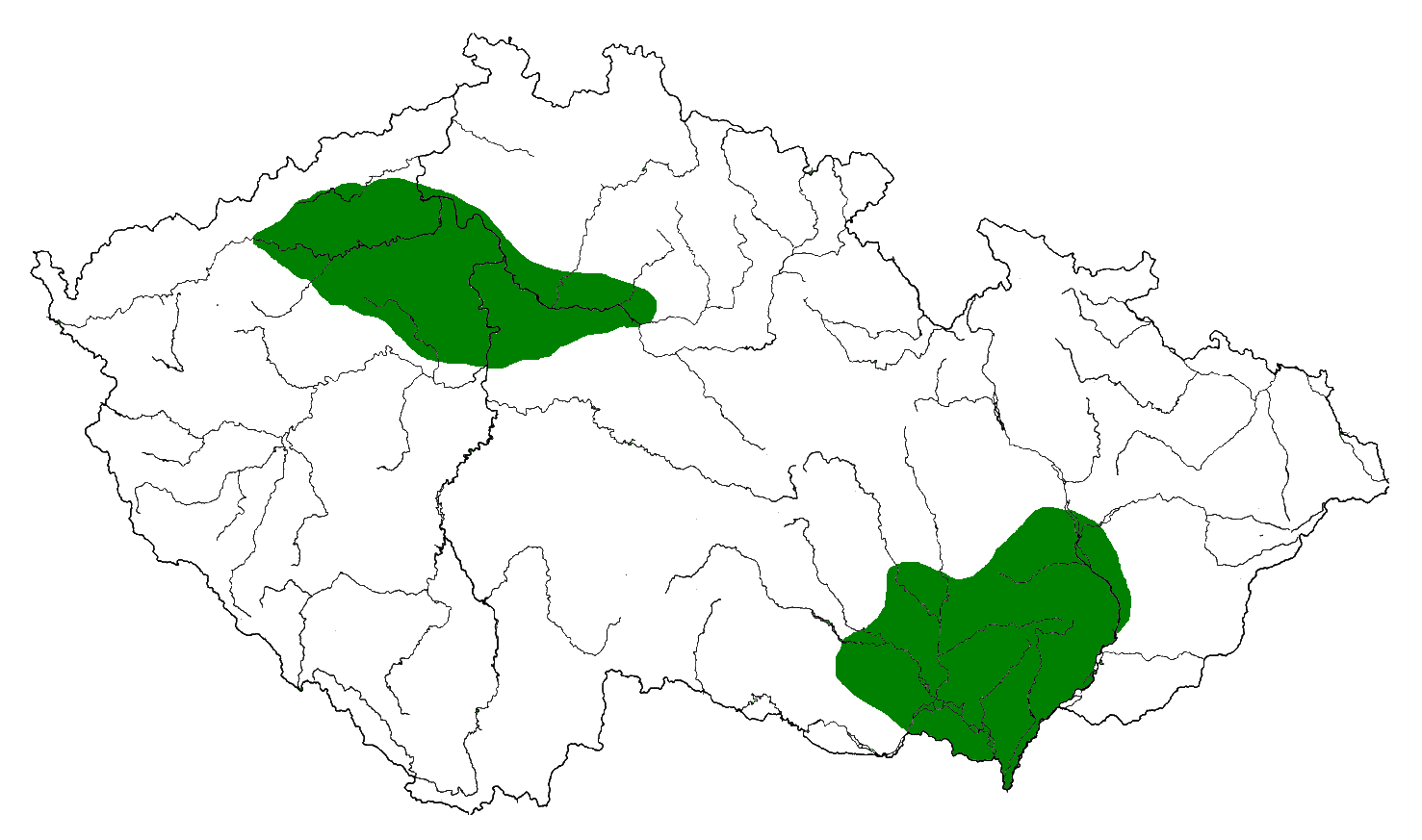 Approximate distribution of Early Slavic settlement - Prague-type culture in territory of the Czech Republic (late 6th century AD).